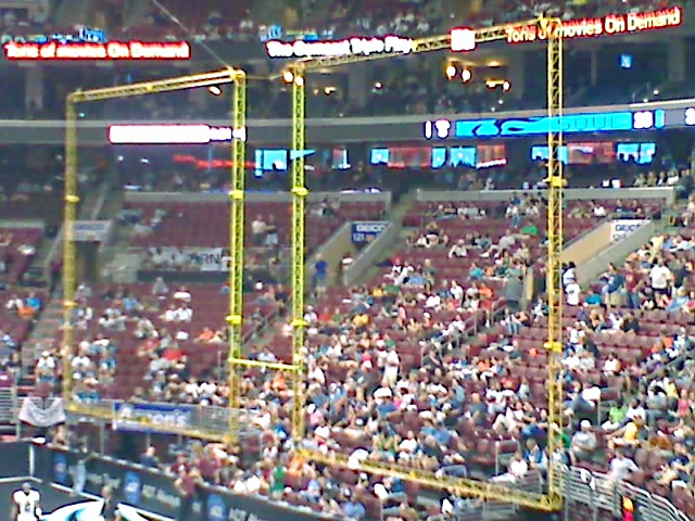 Picture of an Arena Football League goal post. Taken at the Wachovia Center, Philadelphia, PA on July 5, 2008